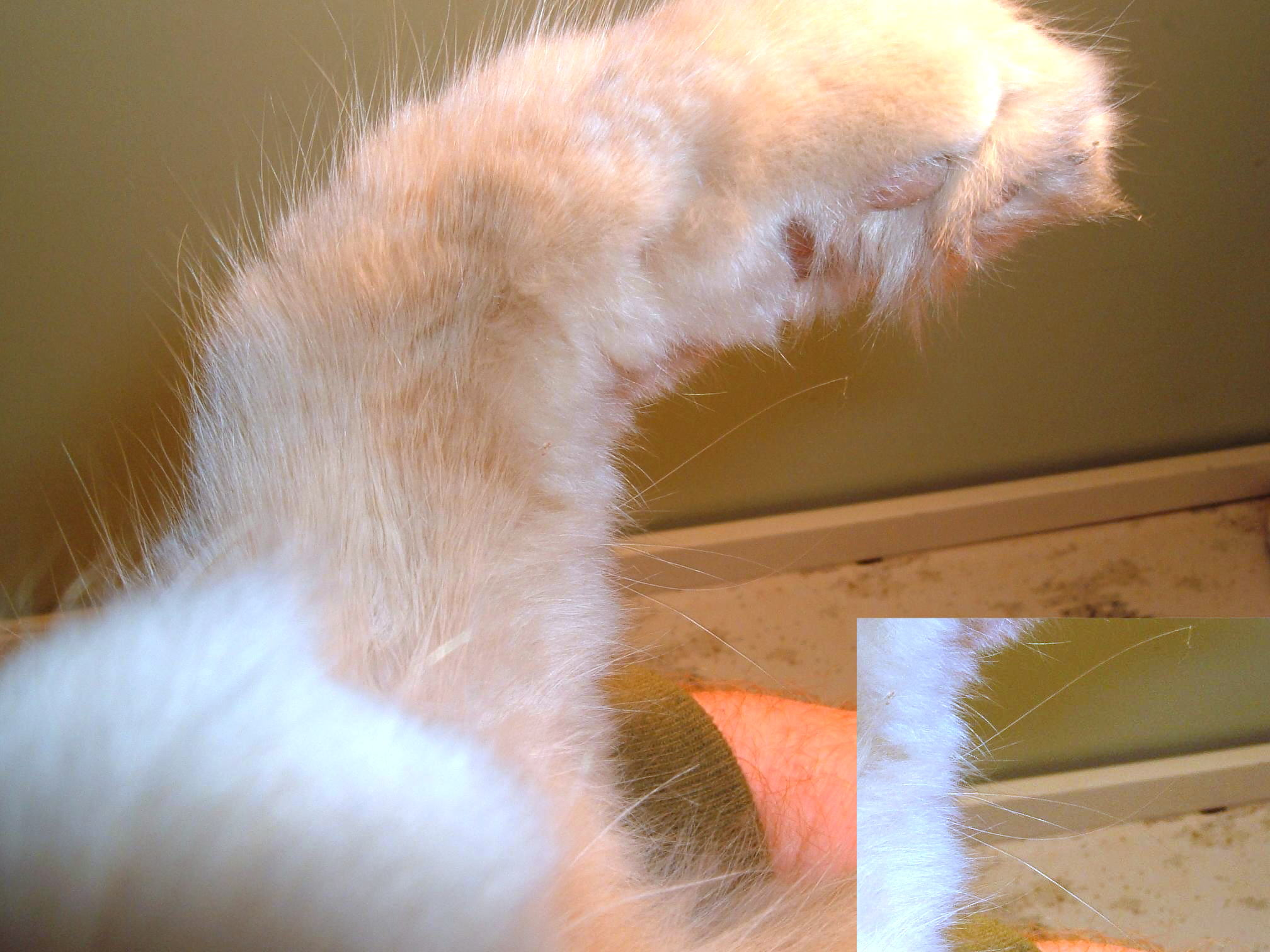 Whiskers clearly distinguishable on the wrist of even a long haired cat